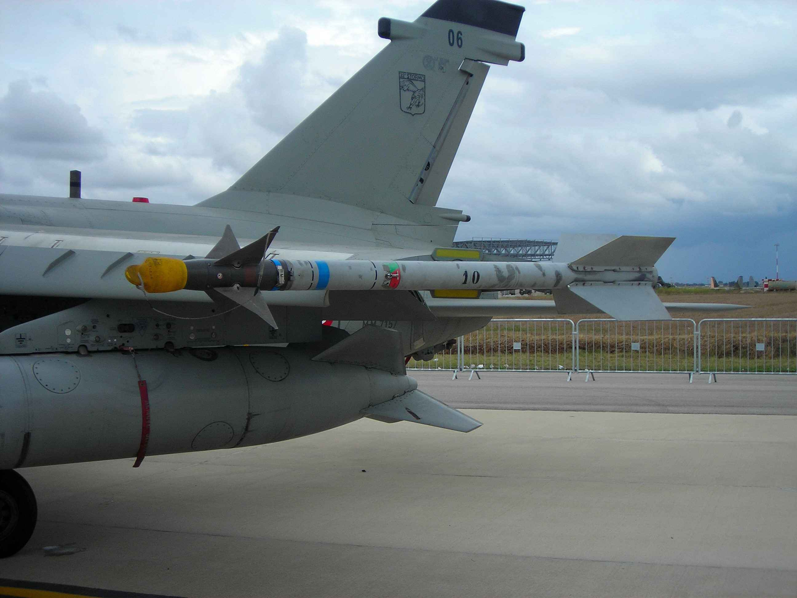 AIM-9 Sidewinder on AMX Picture taken during "Giornata Azzurra" 2006 (Italian Air Force airshow) at Pratica di Mare AFB, Italy.